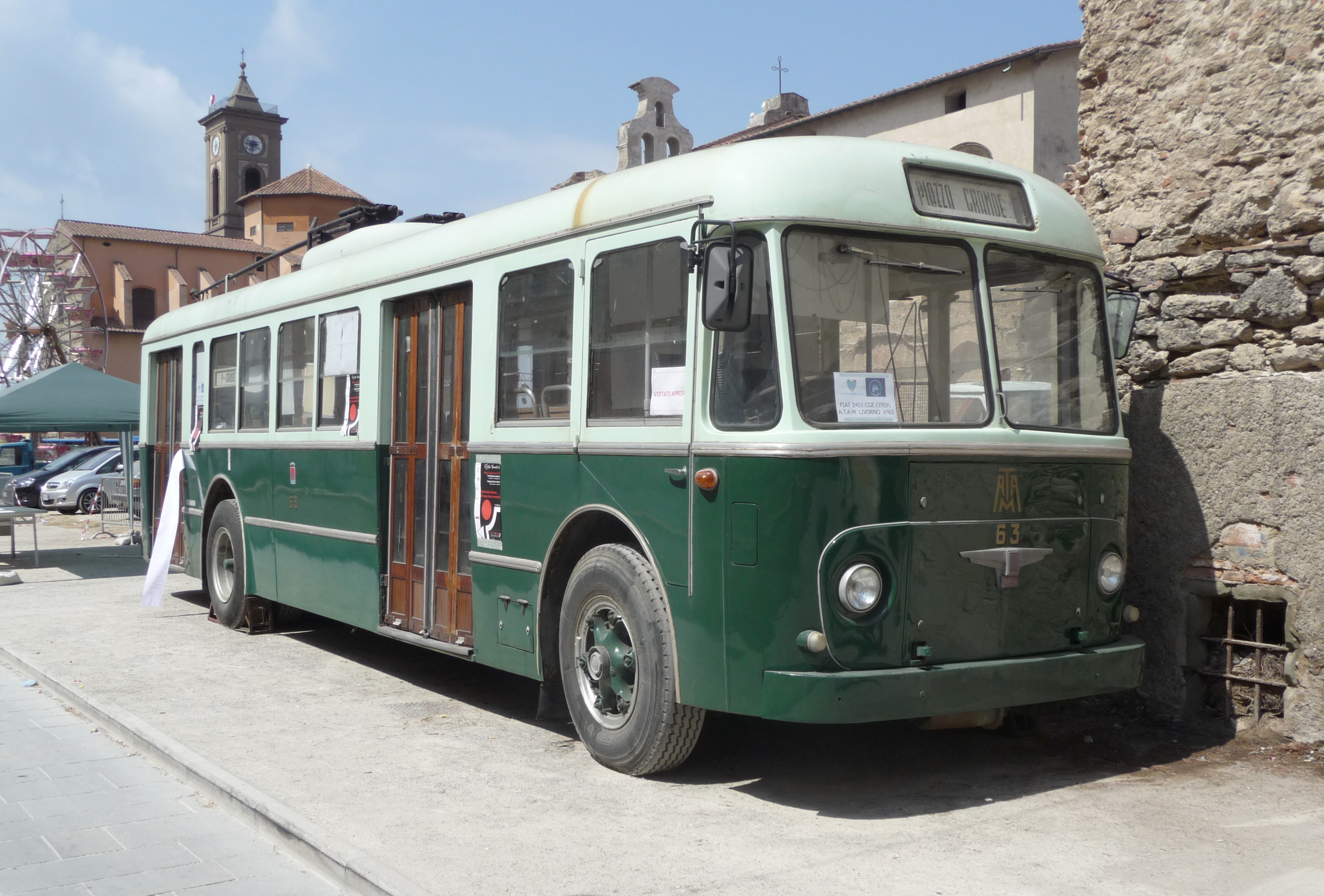 Trolleybus FIAT 2411 CGE, ex A.T.A.M. Livorno (1959), Photo 2008